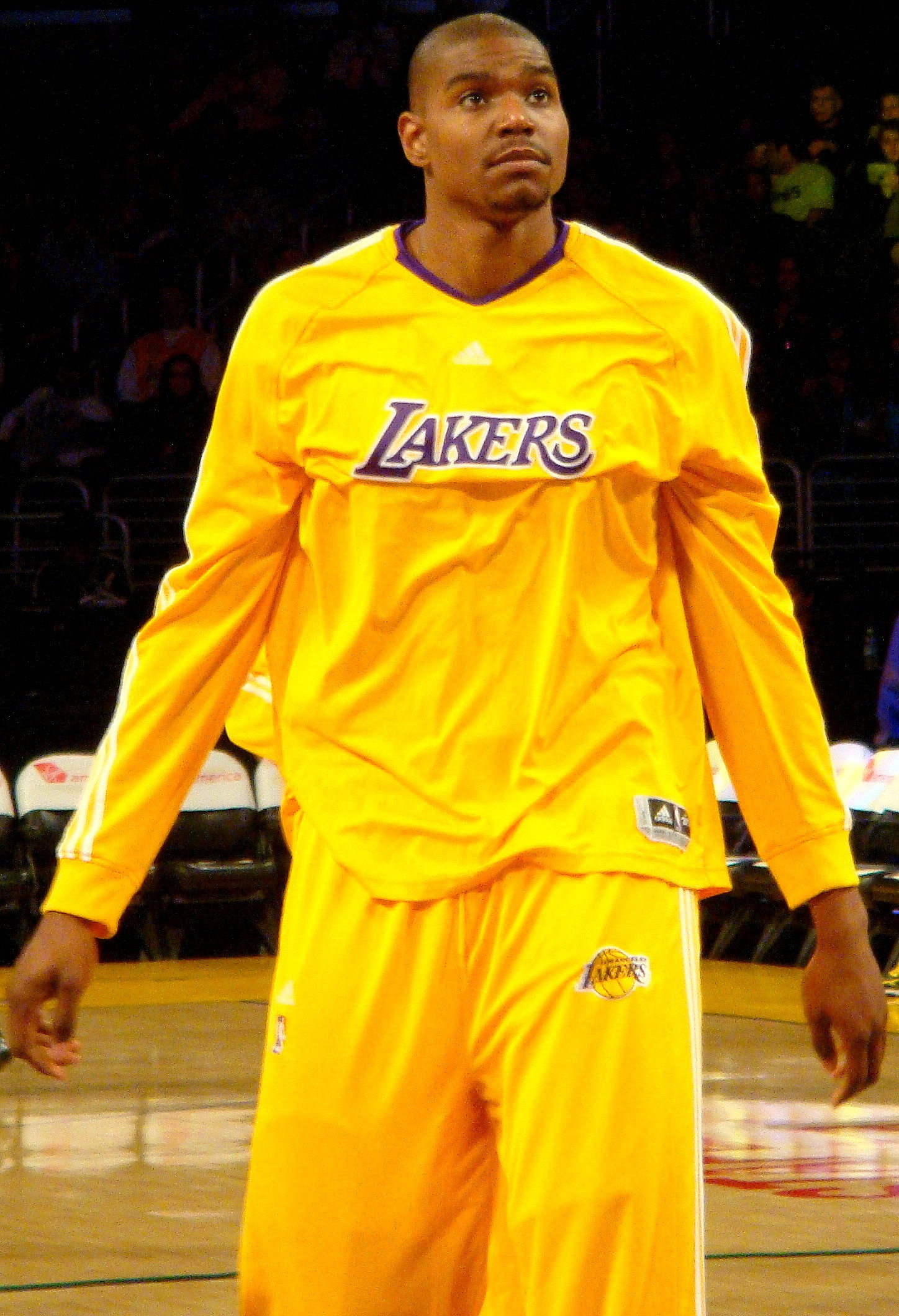 Andrew Bynum in 2010 Camera: Sony DSC-T300 License on Flickr (2011-02-16): CC-BY-2.0 Flickr tags: los angeles lakers, sacramento kings, basketball, andrew bynum